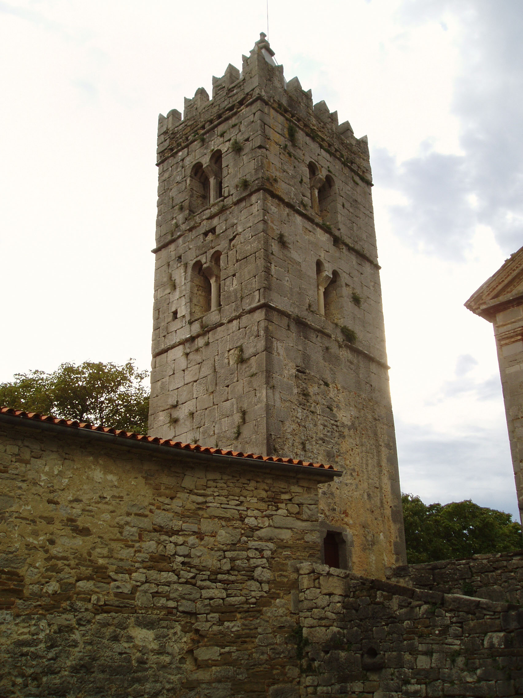 Bell tower in Hum